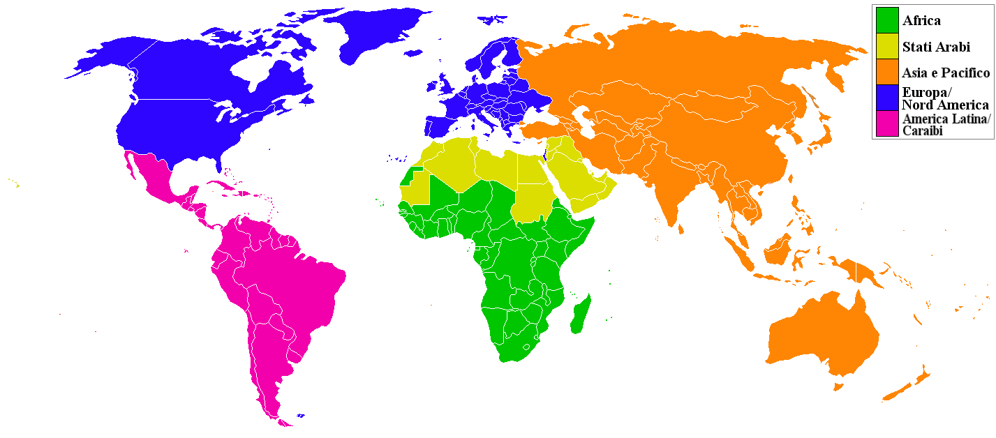 Map of UNESCO Regions in order to localize World Heritage Sites.